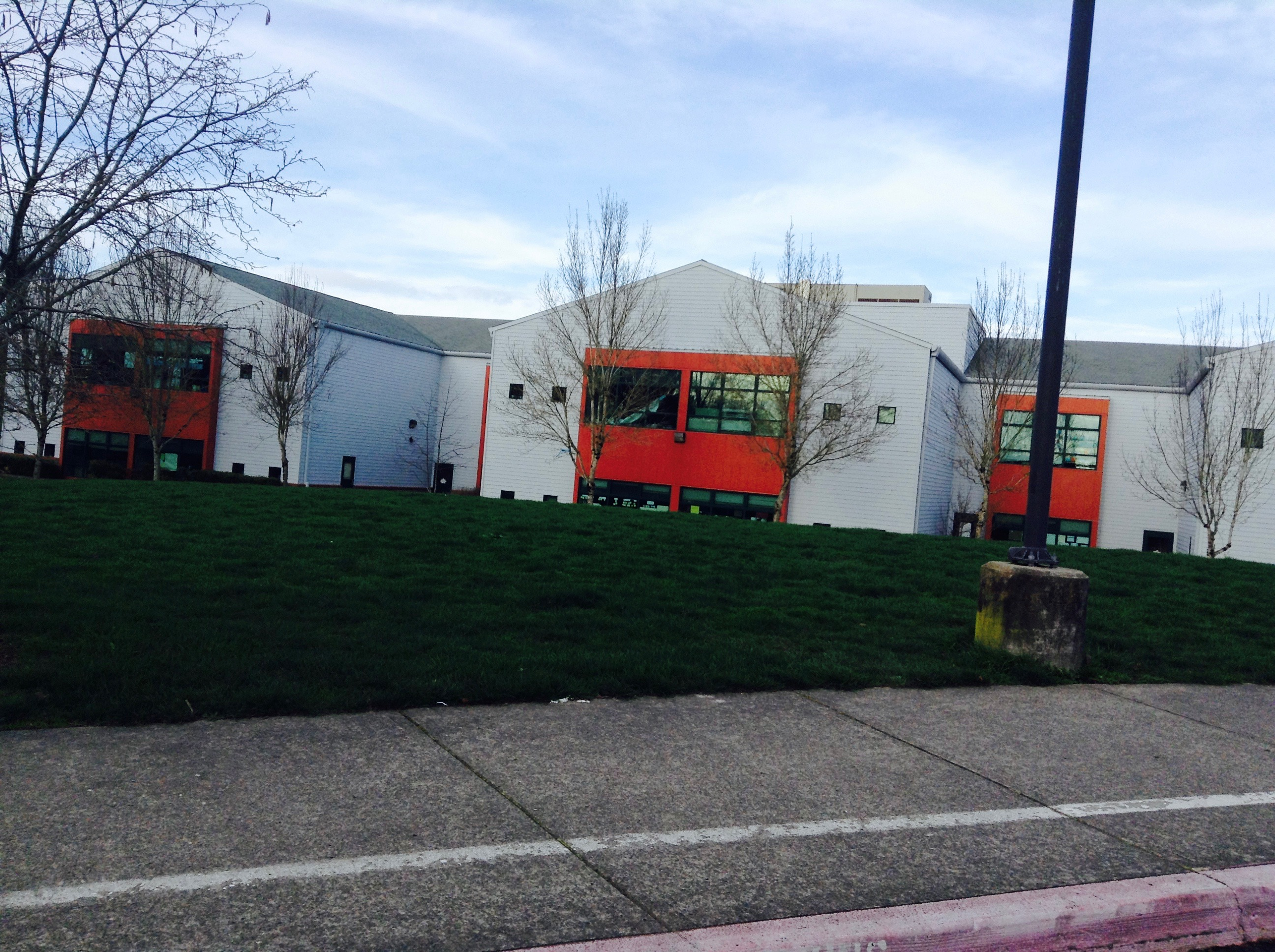 Jacob Wismer Elementary School, part of the Beaverton School District.